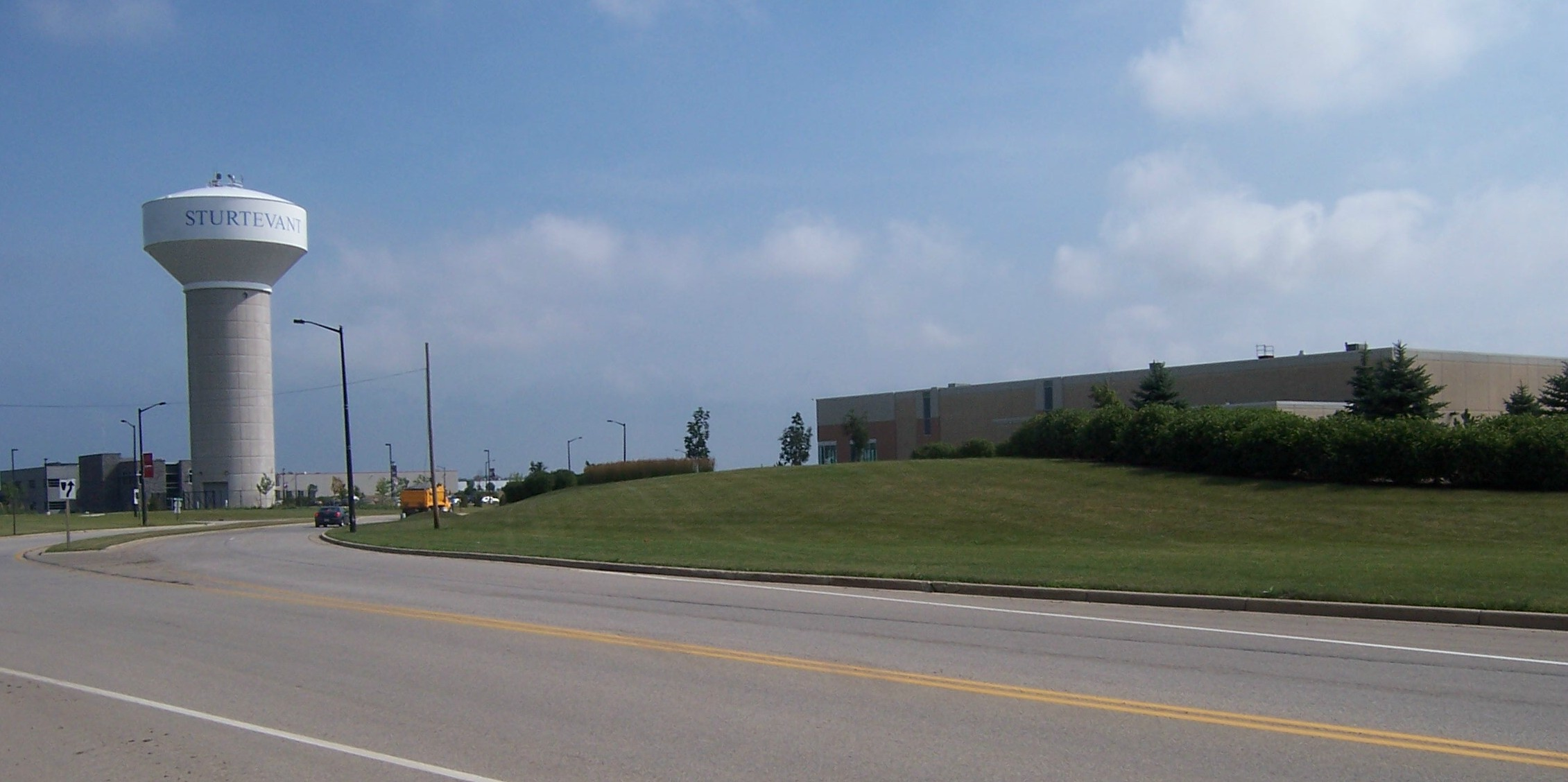 Water tower and distribution warehouse in Sturtevant, Wisconsin.